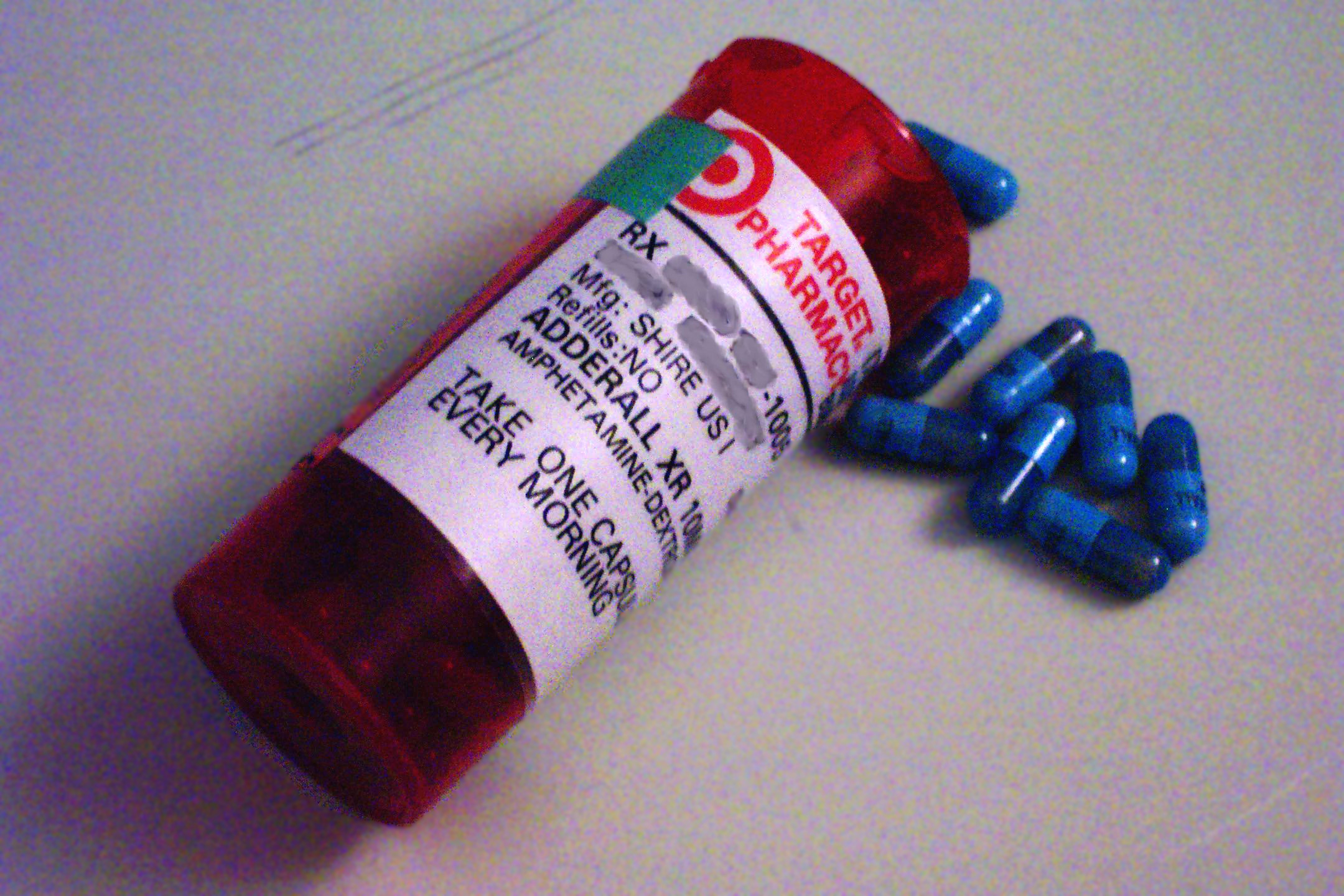 Adderall XR 10MG tablets